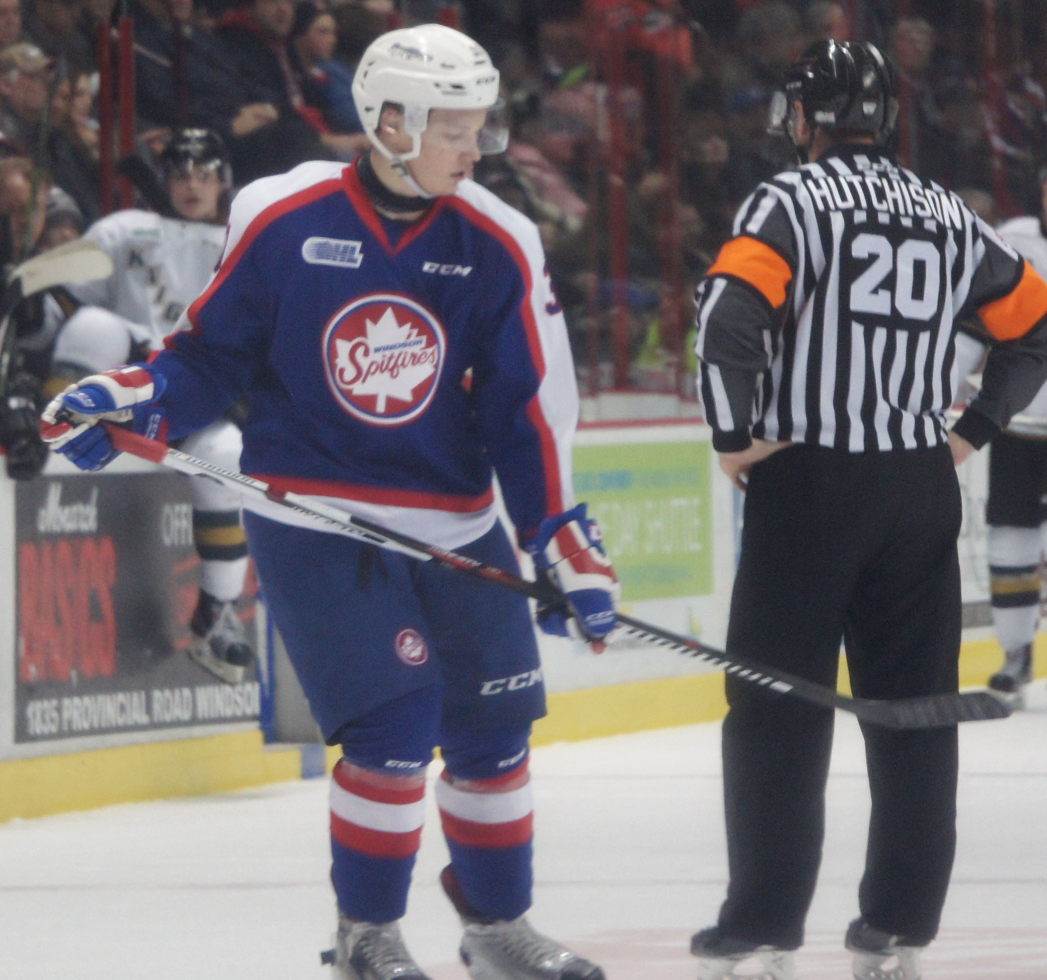 Mikhail Sergachev playing for the Windsor Spitfires against the London Knights in Windsor on January 30, 2016.